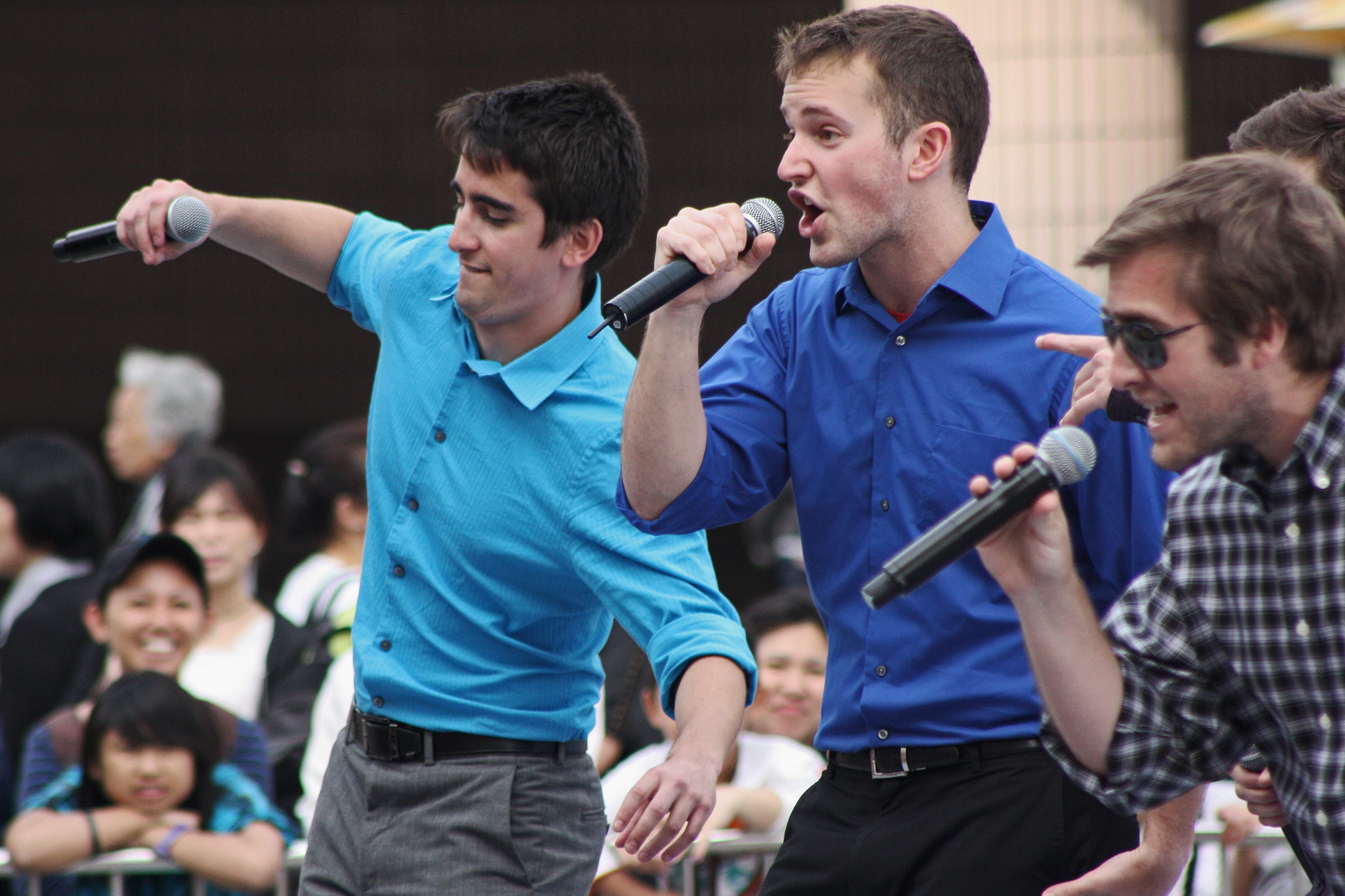 Beelzebubs playing at the Hong Kong International A Cappella Festival 2012.